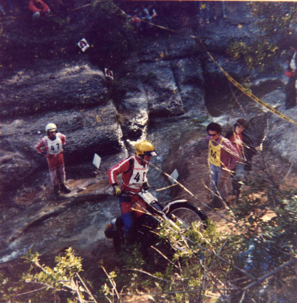 Rob Edwards with his Montesa Cota 348 at XIII "Trial de Sant Llorenç" in Matadepera (Catalonia) on March 11, 1979. It was the 5th race of the Trial World Championship. He finished 33rd. This was the section #20, called "Zona de l'Aureli", near the spring of Carlets (Rellinars).